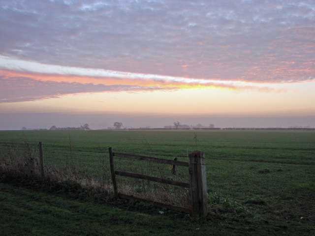 Early Morning Sky About 6am over fields on South side of Banbury